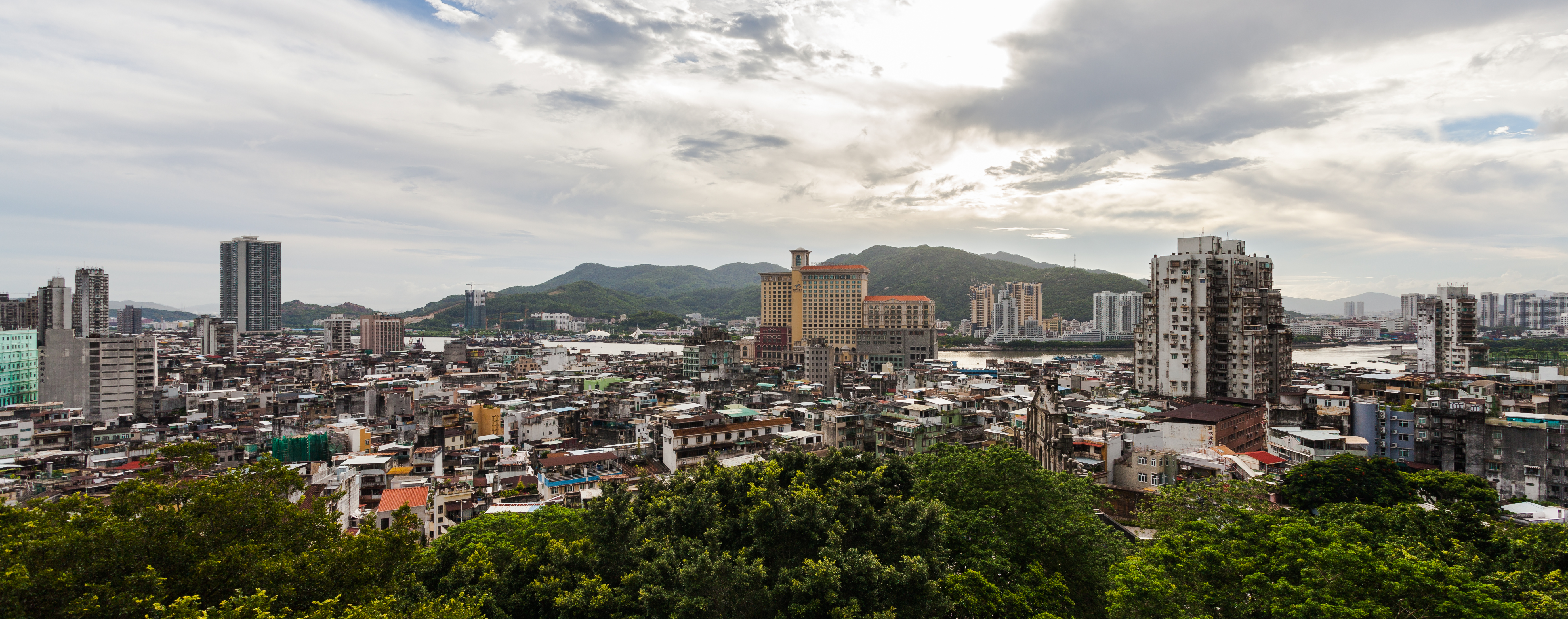 View of Macau